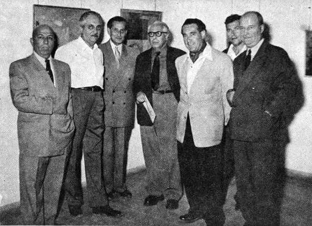 opening of the 5th Ofakim Hadasim exhibition at the Tel Aviv Museum, November 1953. from the left: Avraham Naton, Marcel Janco, kolev, Jan kaso, Aharon Kahana, Mordecai Arieli, Joseph Zaritsky. פתיחת התערוכה החמישית של אופקים חדשים במוזיאון תל אביב, נובמבר 1953. משמאל לימין?: נתון, ינקו, קולב, ז'אן קאסו (מחזיק בקטלוג), כהנא, אריאלי, זריצקי.